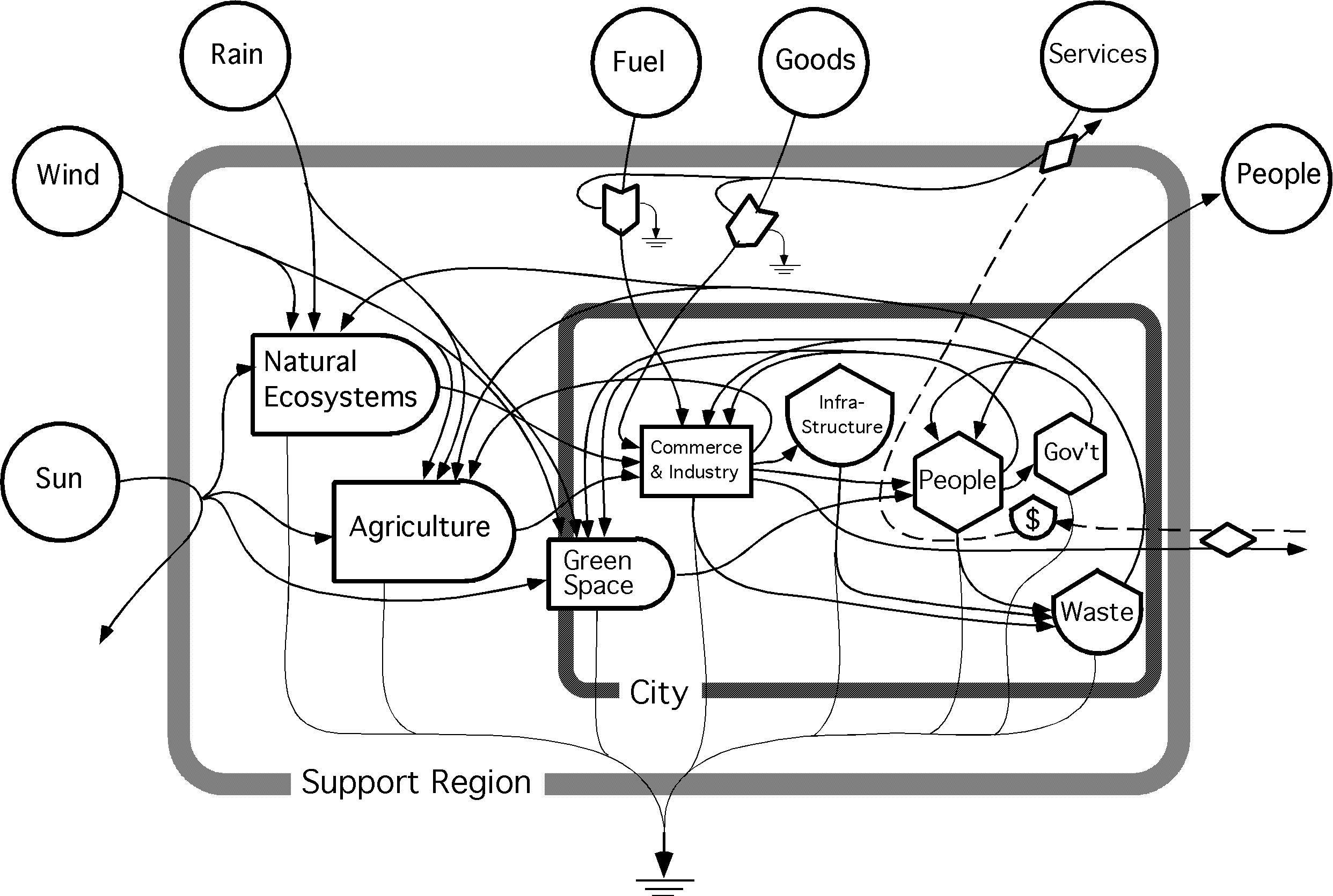 This image was created by Mark T. Brown. Mtbrown8 (talk) 09:54, 6 June 2010 (UTC)